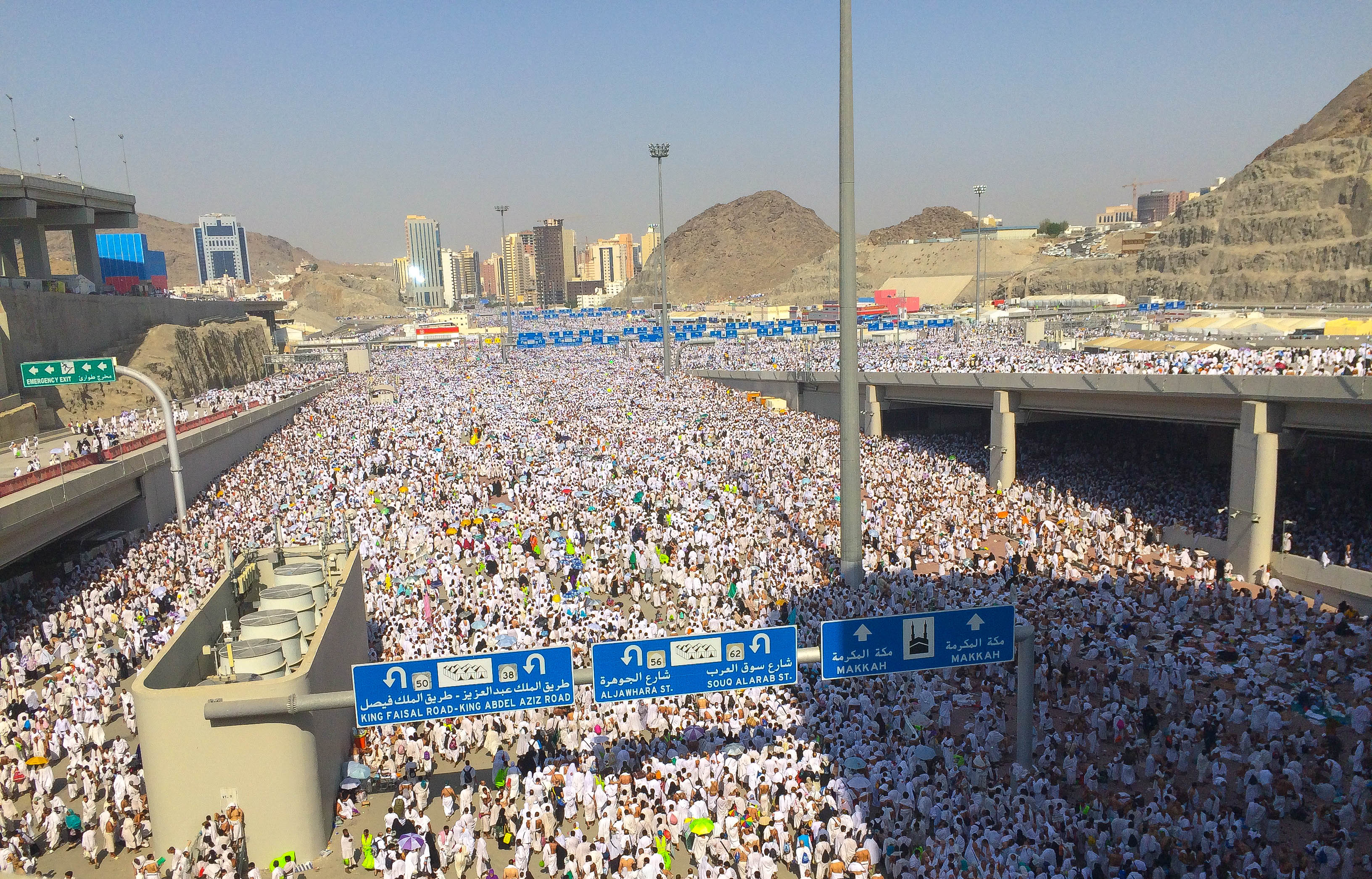 This is in Mina Makkah City